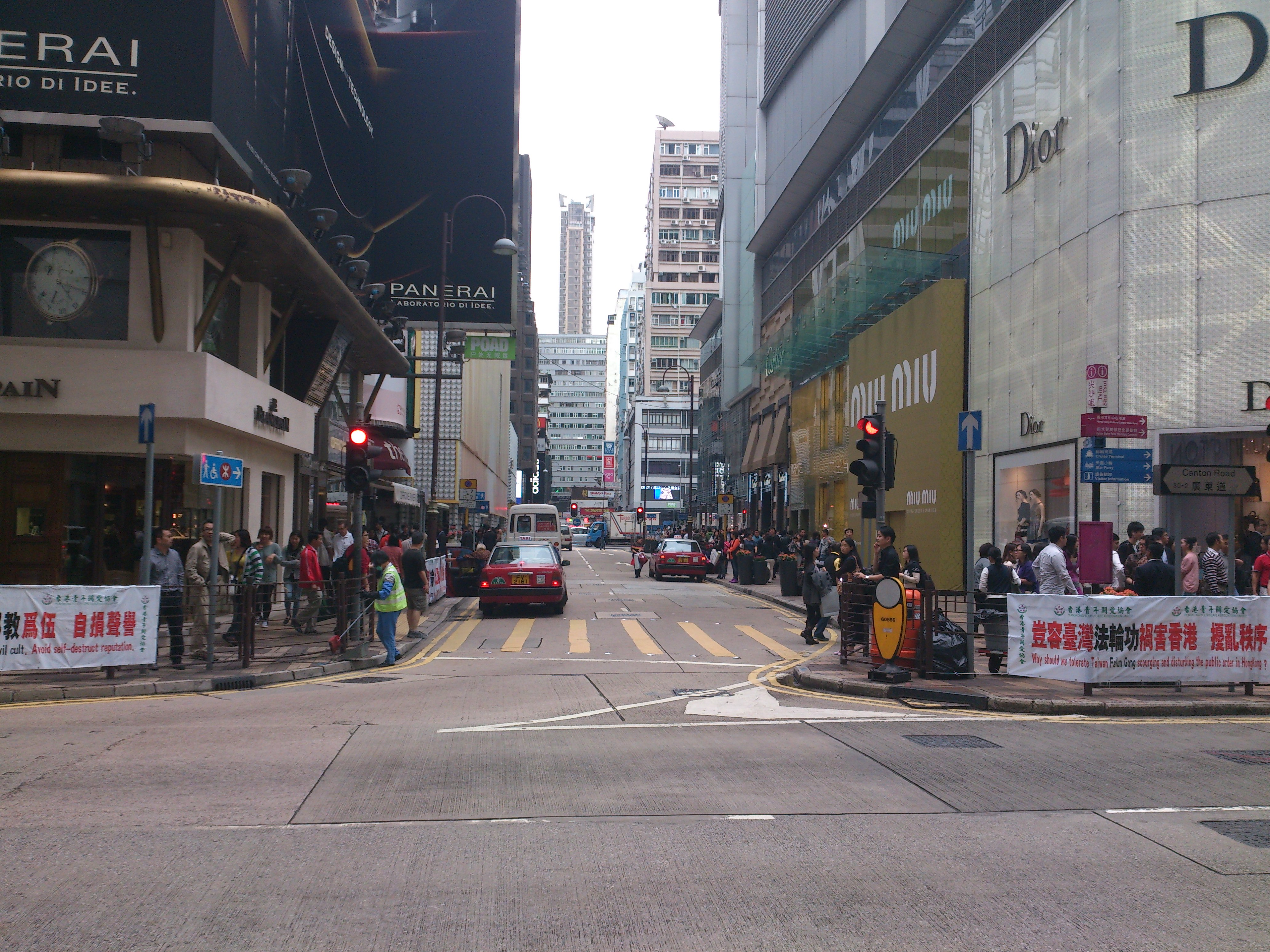 Peking Road near Canton Road